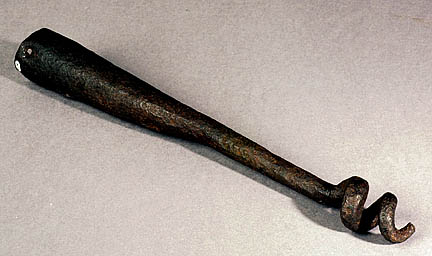 This image comes from the US National Parks Service website for Valley Forge. As a work of a US Government Agency it is in the public domain.